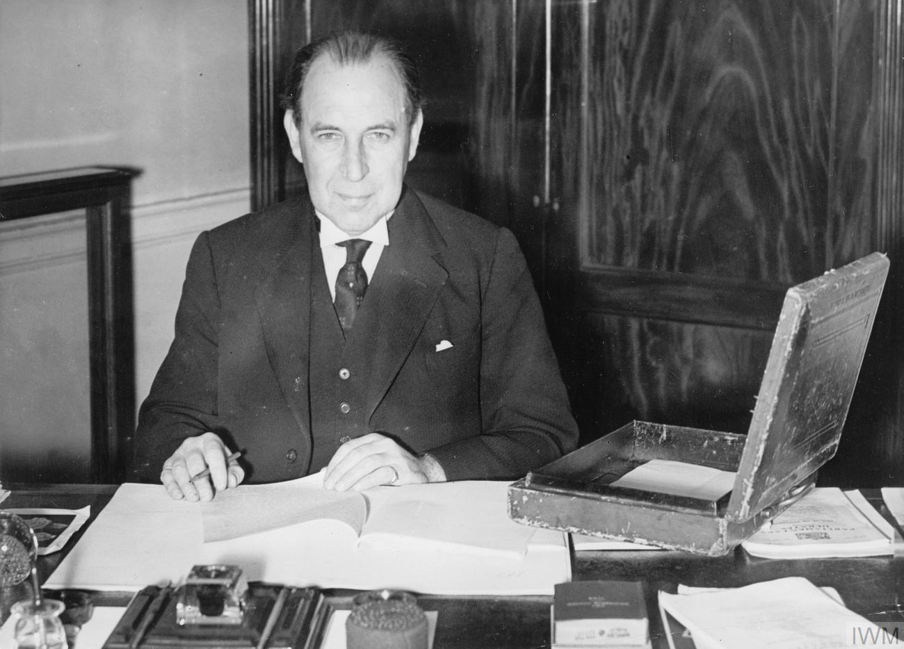 British Political Personalities 1936-1945 The Churchill Coalition Government 11 May 1940 - 23 May 1945: Sir John Anderson, the Chancellor of the Exchequer, seated at his desk at the Treasury, the day before he presented the budget.